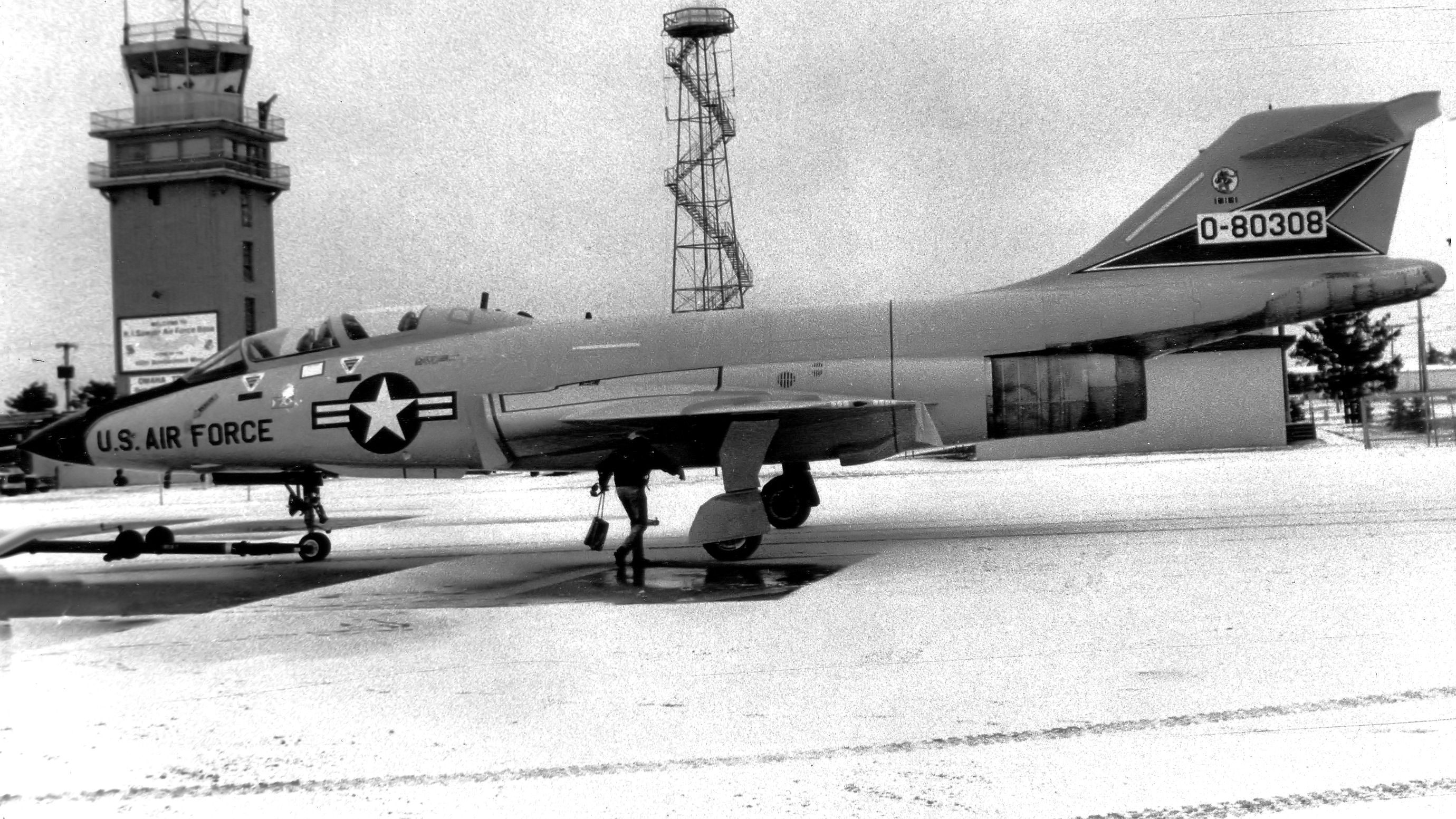 62d Fighter Squadron - McDonnell F-101B-110-MC Voodoo 58-0308. Excessed after retirement, April 1971, last seen on a scrap pile at Fairway Surplus, Tawas City, Michigan in 1972/73